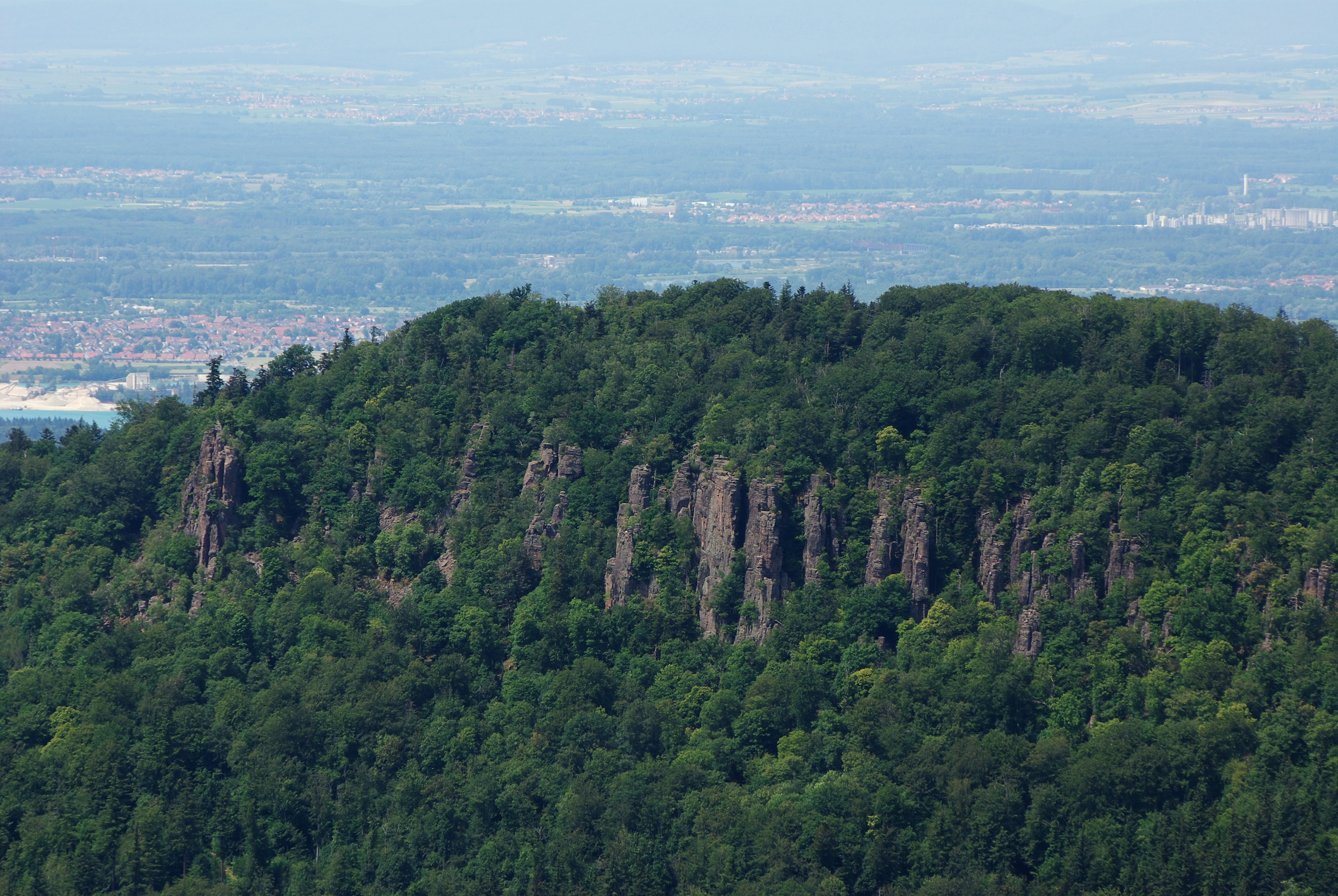 Battertfelsen, a rock formation near Baden-Baden, as seen from mount Merkur. The Upper Rhine Plain is in the background.